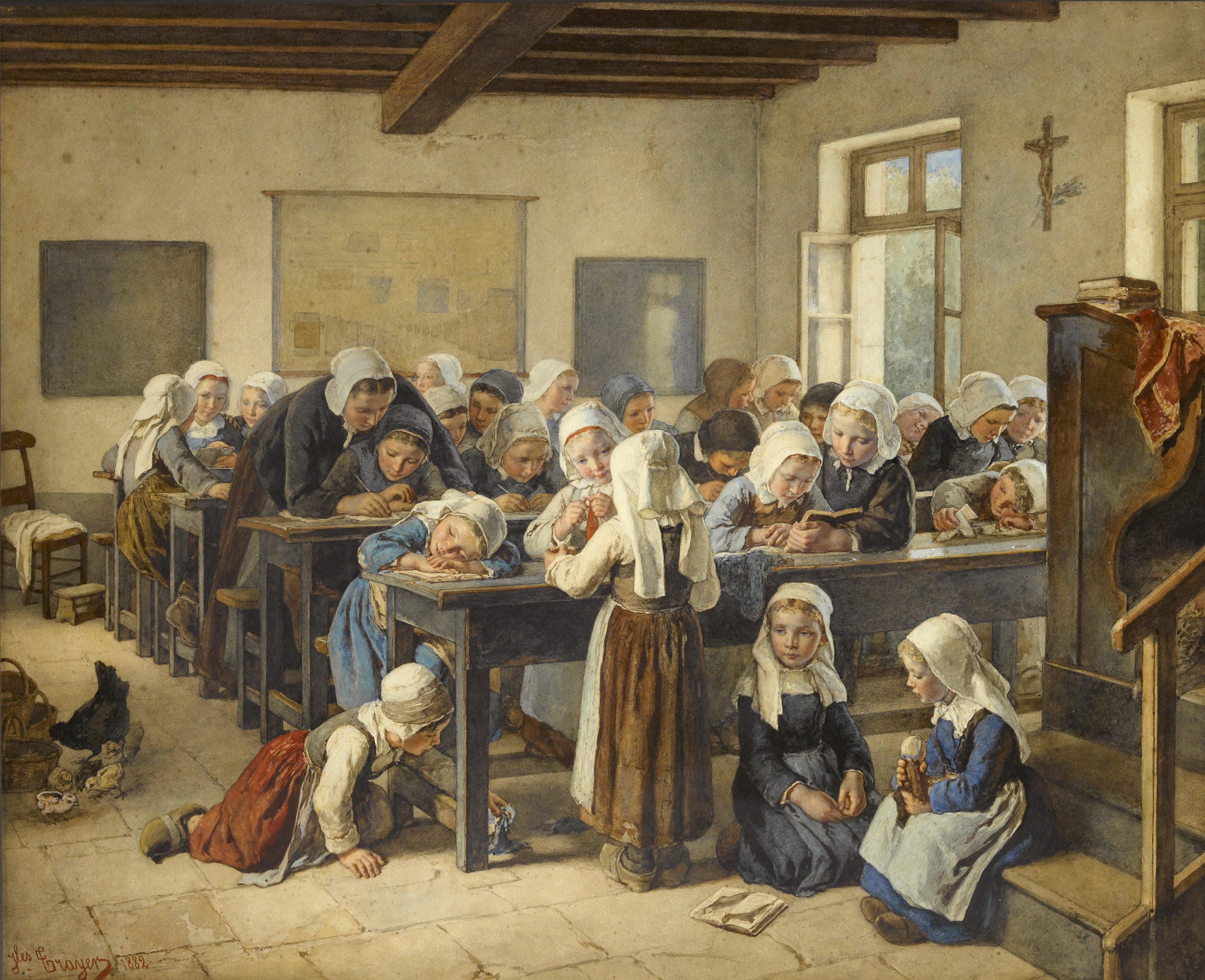 A Breton infants school